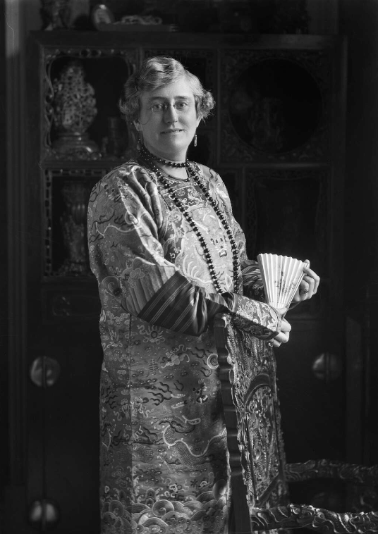 Dorothea (née Soothill), Lady Hosie by Lafayette in NPG in 2 Oct 1928 - photographer not creditted